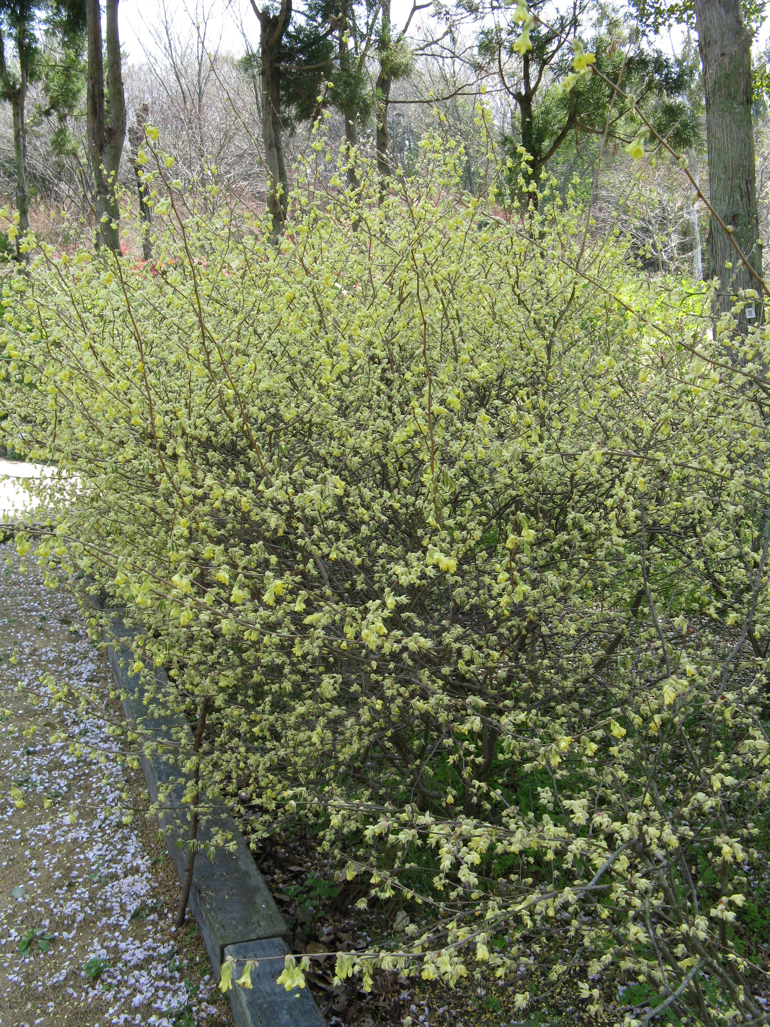 Corylopsis pauciflora